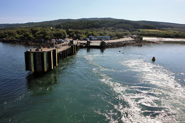 Kennacraig Ferry Terminal on the rocky outcrop, Eilean Ceann na Creige. The mainland terminal for Islay, Jura and Colonsay. Behind is part of the Mull of Kintyre.